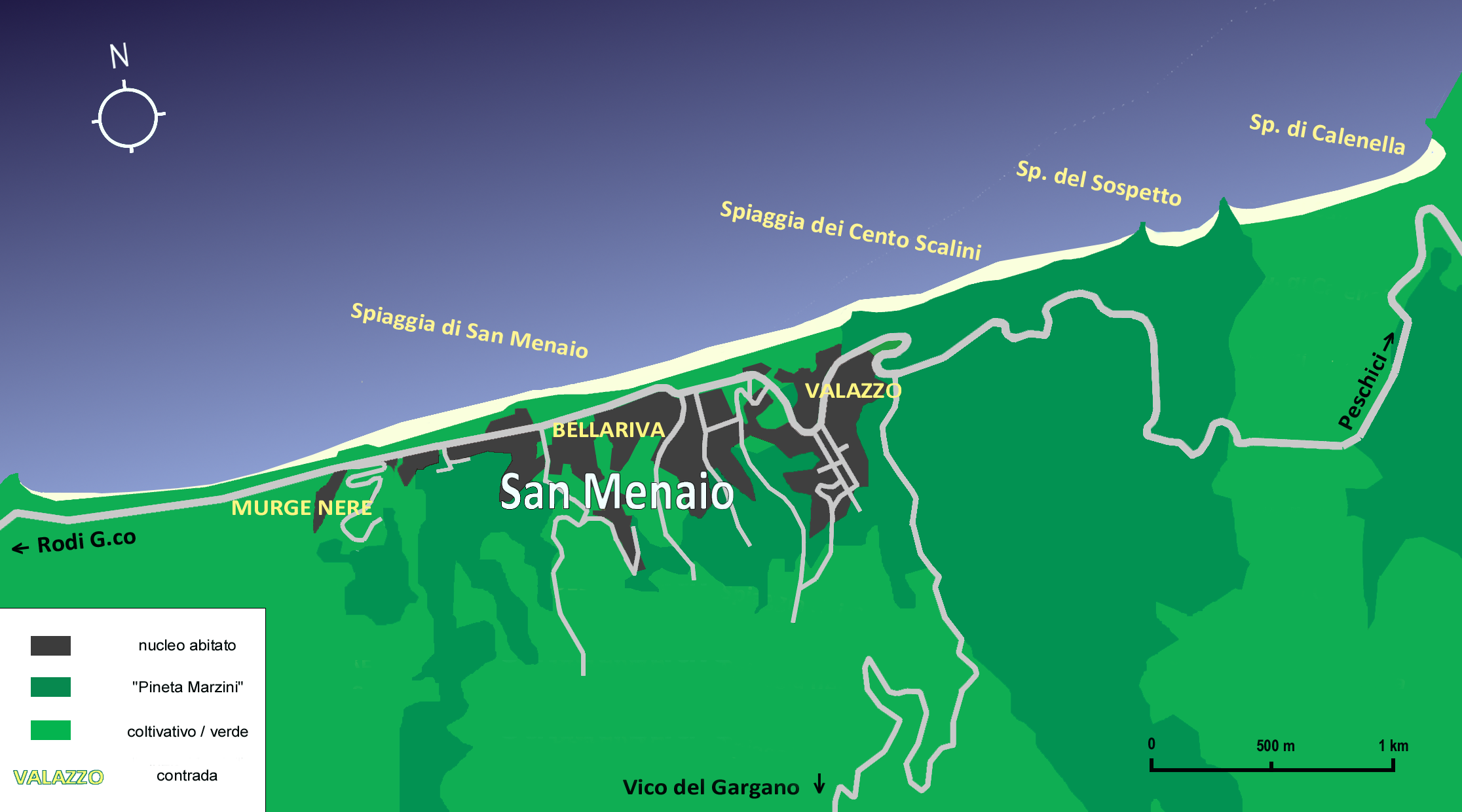 Map of San Menaio, seaside village in the Gargano National Park, Italy